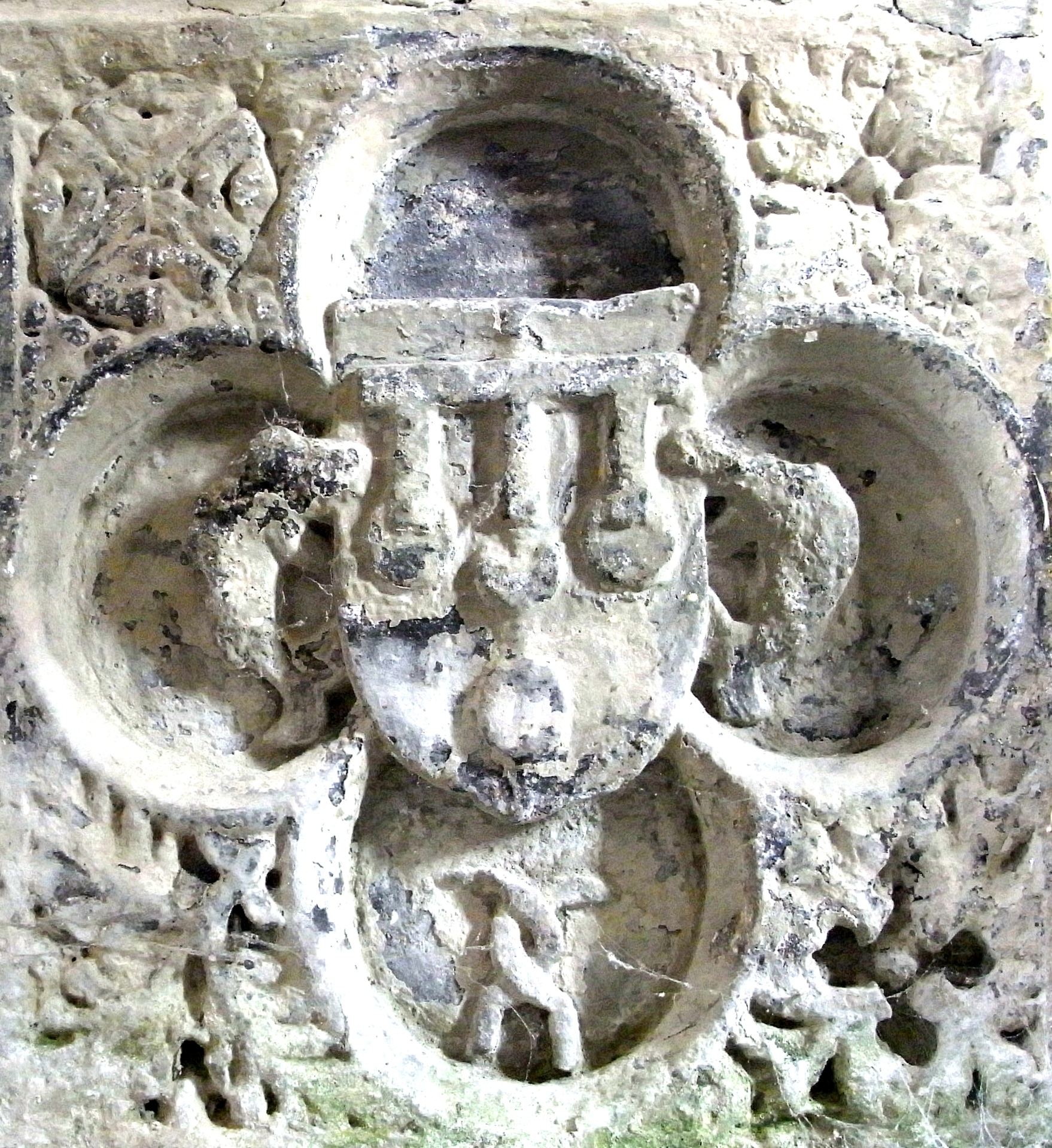 Fragment from demolished chest tomb c.1488 in Molland Church, Devon, probably that of Sir Philip Courtenay (d.1488) of Molland, showing within a gothic quatrefoil an escutcheon bearing the arms of Courtenay of Molland: Or, 3 torteaux a label of 3 points azure each point charged with 3 plates a crescent for difference, (note the crescent, which resembles a 4th torteau, signifying a second son) with supporters the Courtenay dolphins; within the lower lobe of the quatrefoil are shown the Hungerford Sickles, the badge of the Hungerford family, here shown as two sickles addorsed entwined.